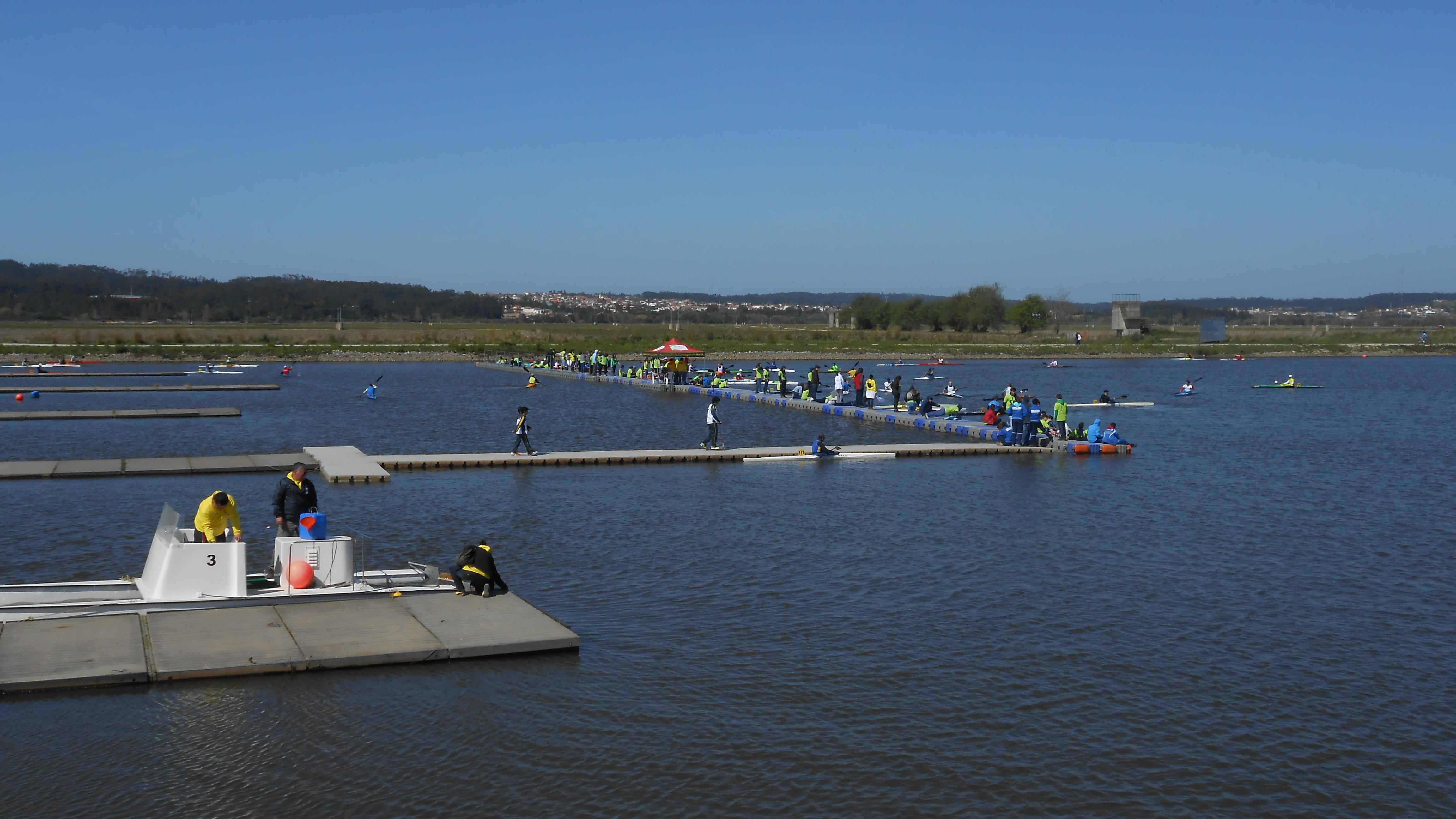 Inside the Centro Náutico, part of the Centro de Alto Rendimento (CAR) in Montemor-o-Velho in the Coimbra district